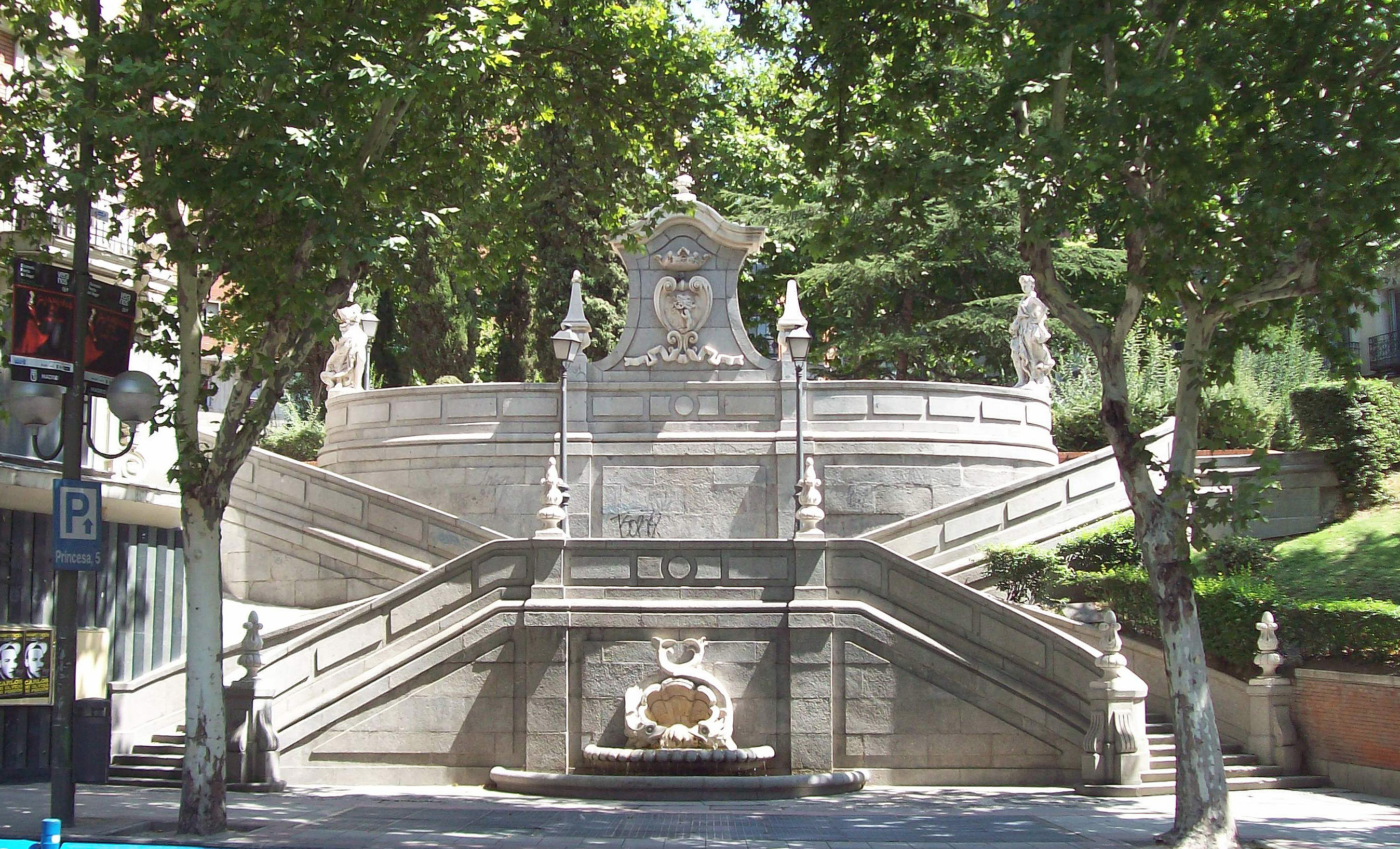 View of the Monument to Jaume Ferran in Madrid (Spain).